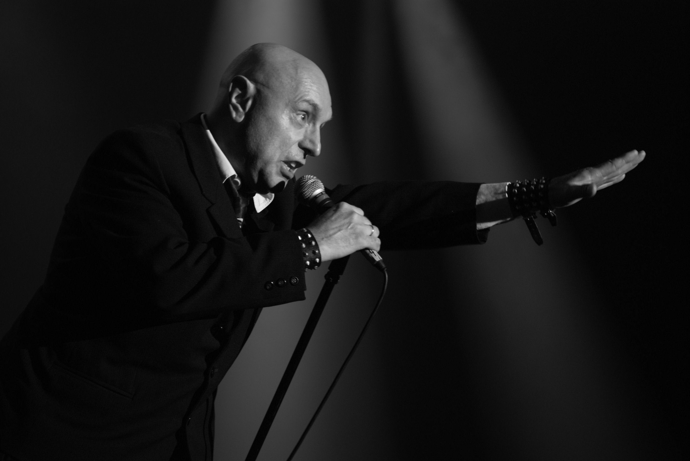 Ireneusz Dudek (Shakin' Dudi) in Spodek